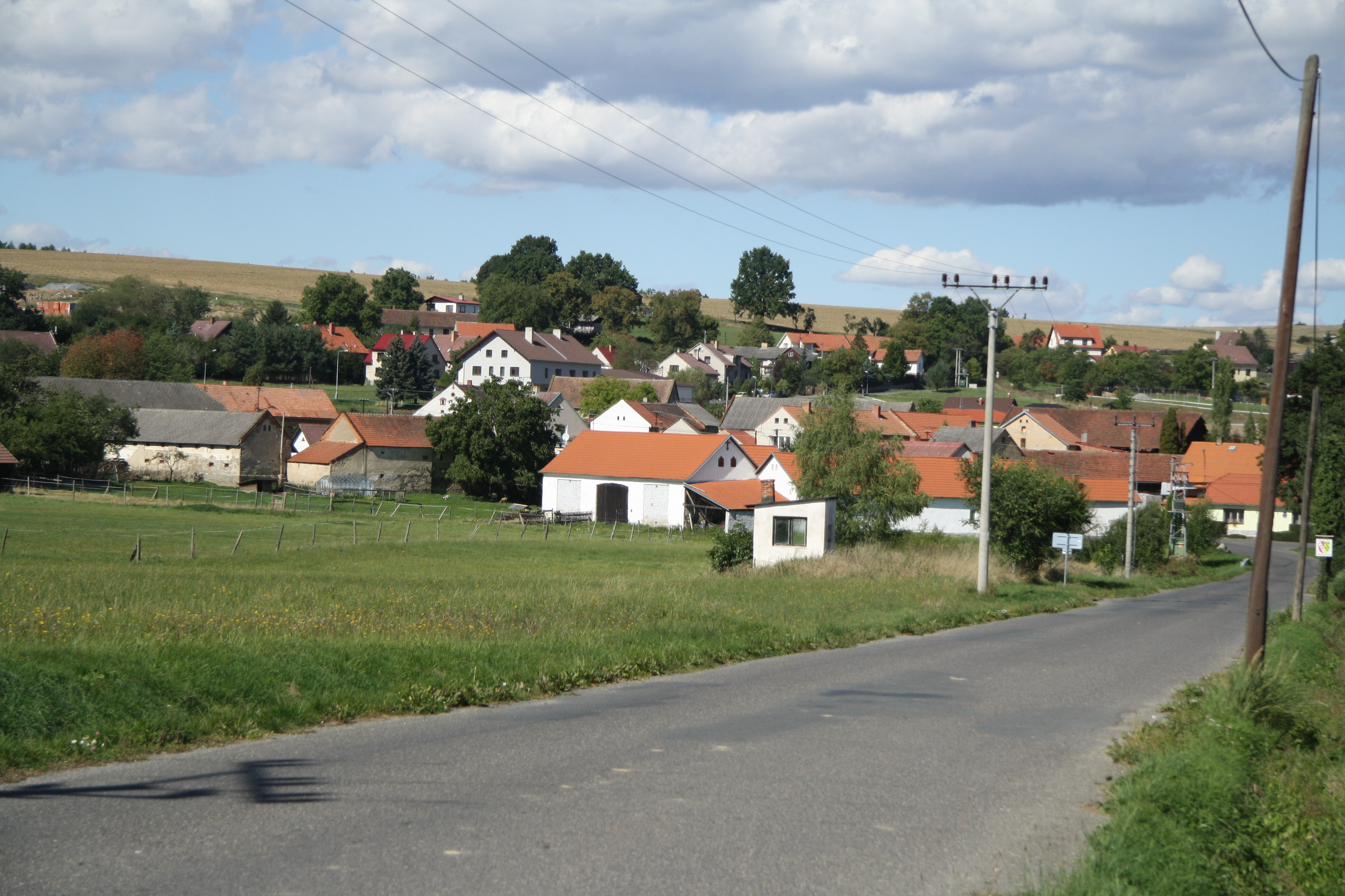 Overview of Prosenická Lhota, Příbram District.